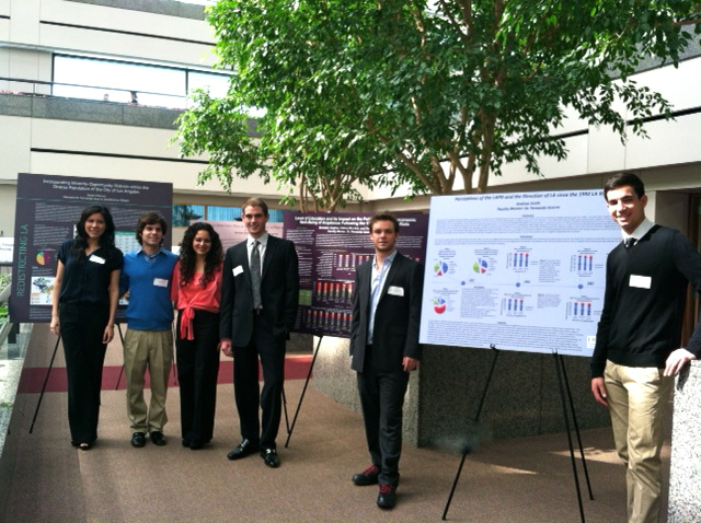 This file is an image of the 2012 Undergraduate Research Symposium at LMU which CSLA undergraduate students researchers participated in annually.